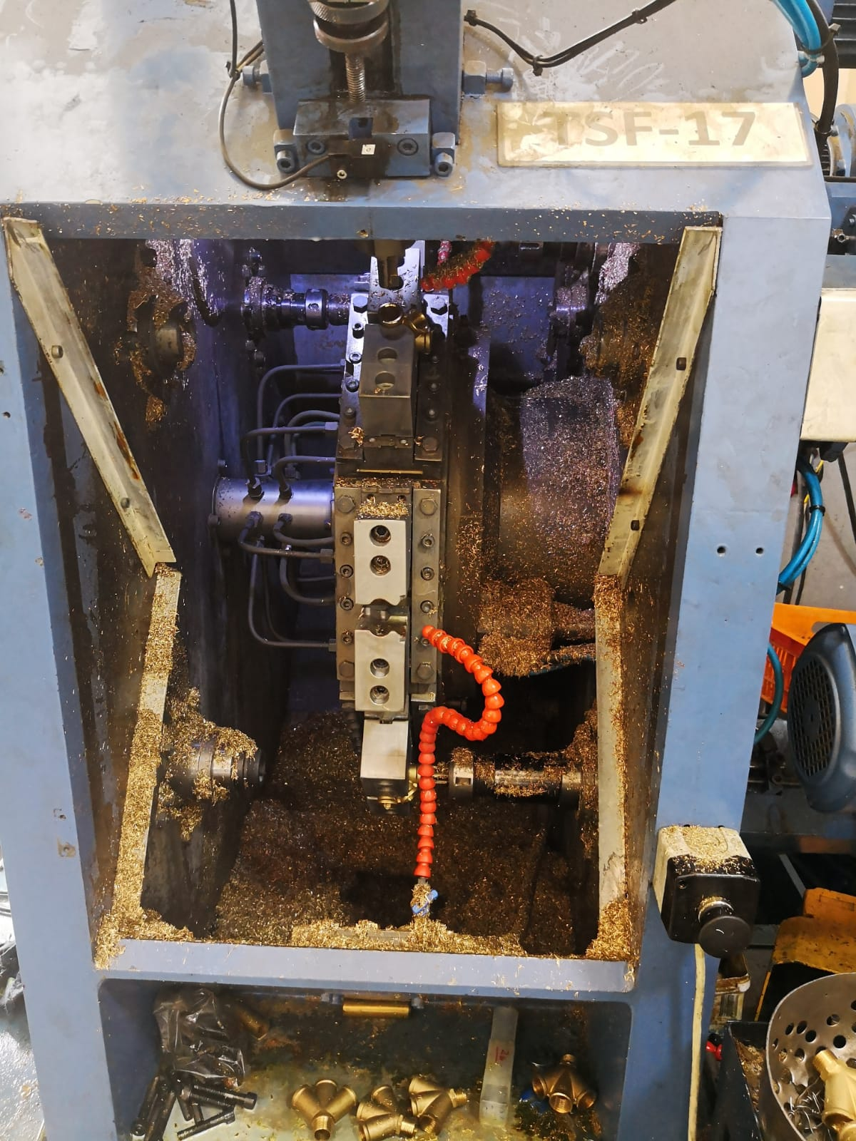 Rotary Transfer Machine Index Table